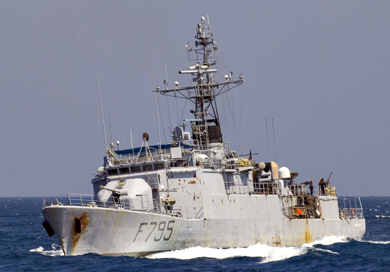 French navy frigate Cdt. Ducuing (D'Estienne d'Orves class).